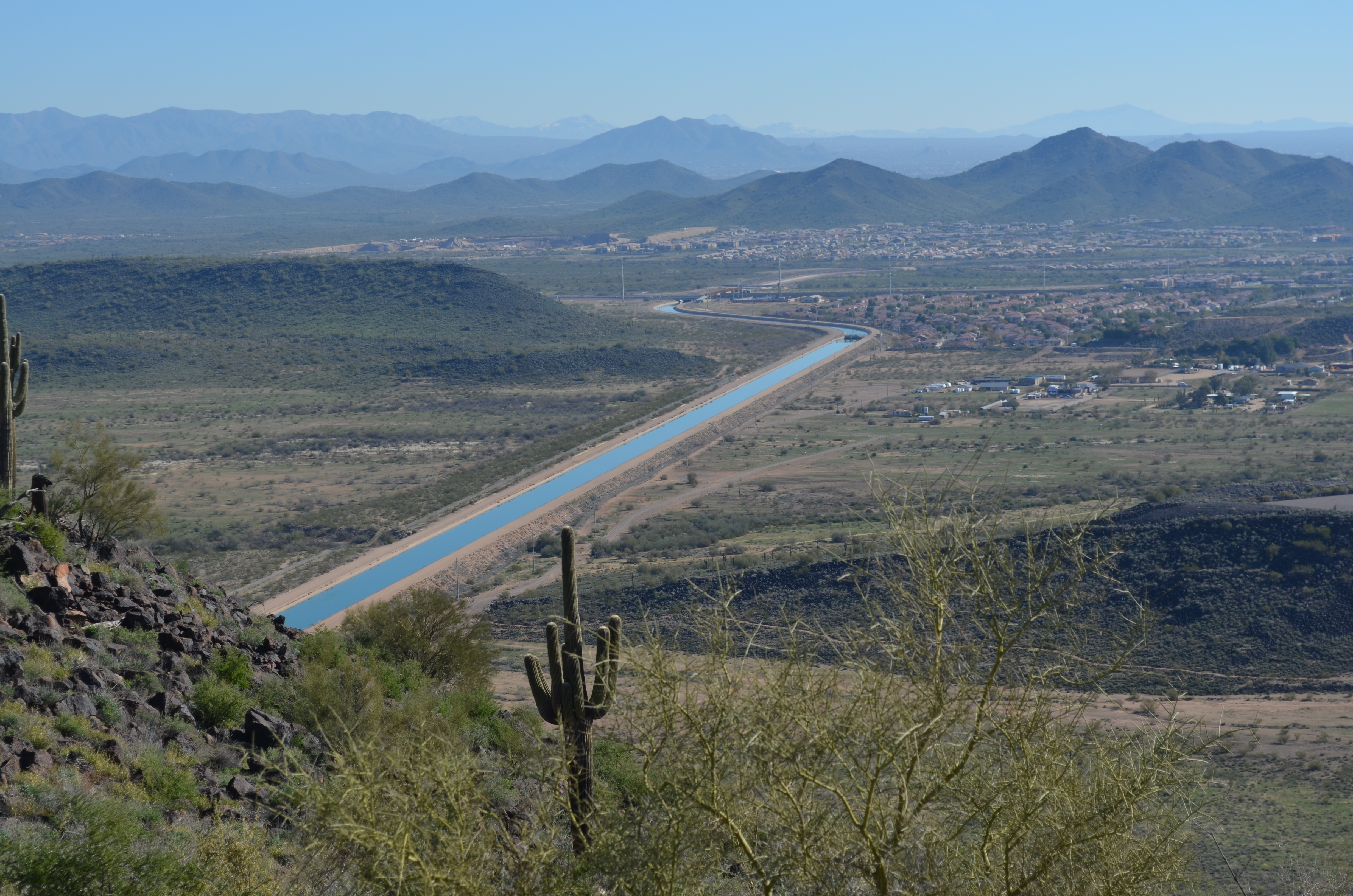 Central Arizona Project (CAP) Canal